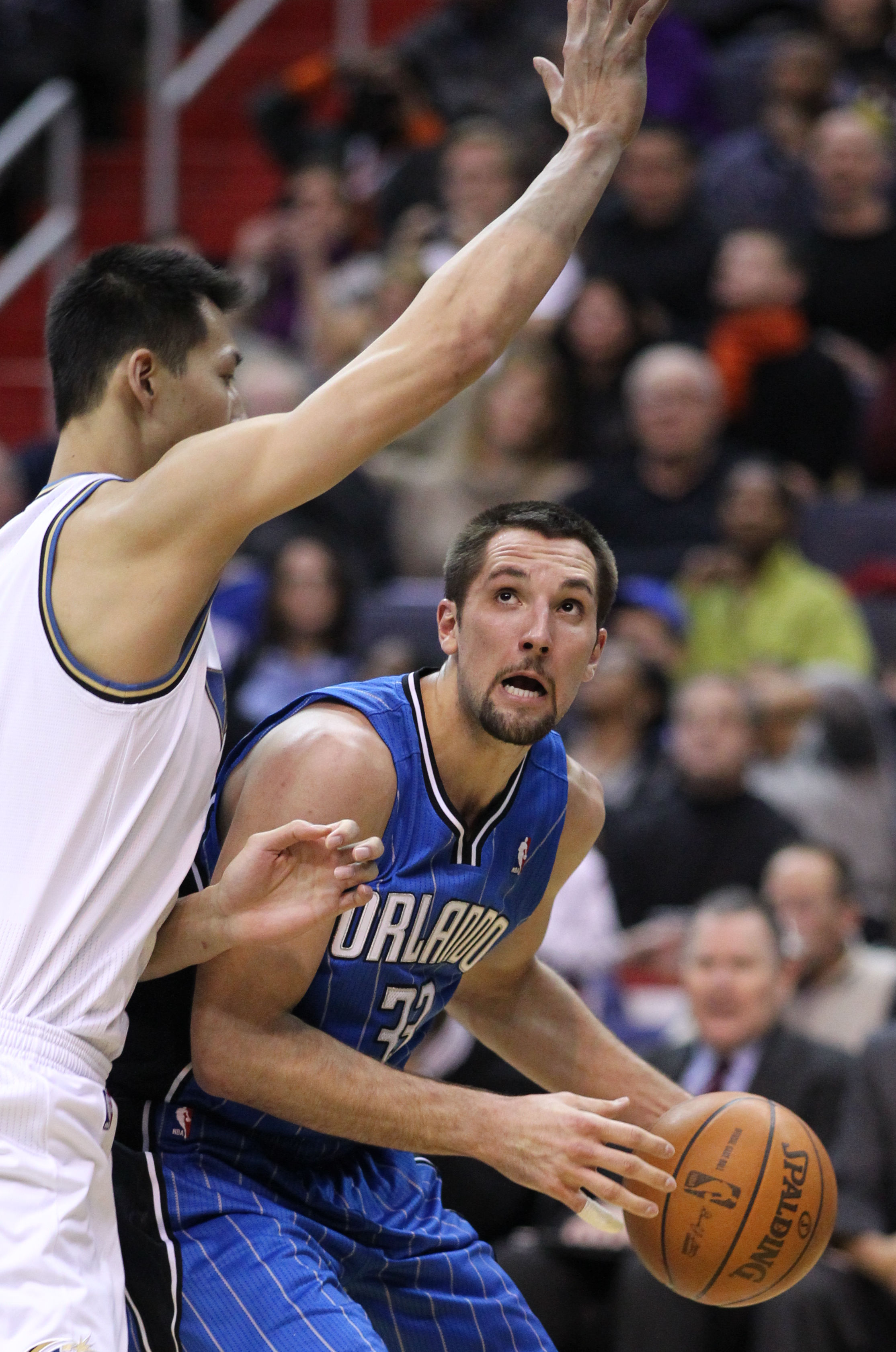 Ryan Anderson playing with the Orlando Magic